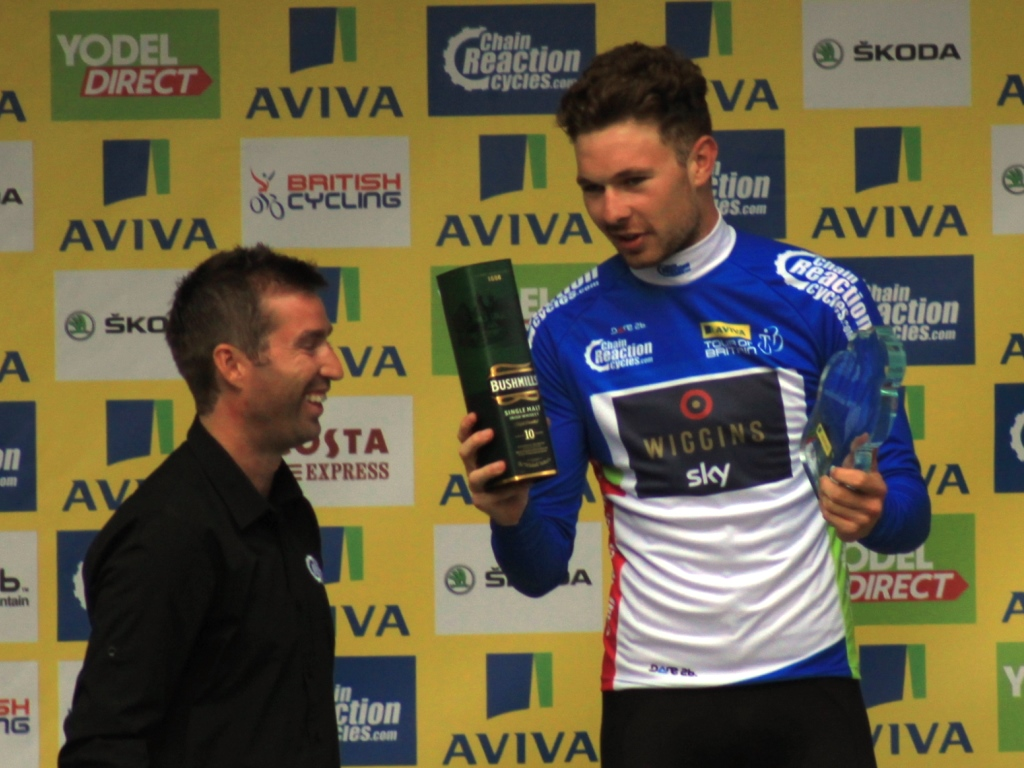 Owain Douall receives his jersey, trophy and prize for winning the Chain Reaction Points competition for the most consistent rider in the 2015 Tour of Britain.